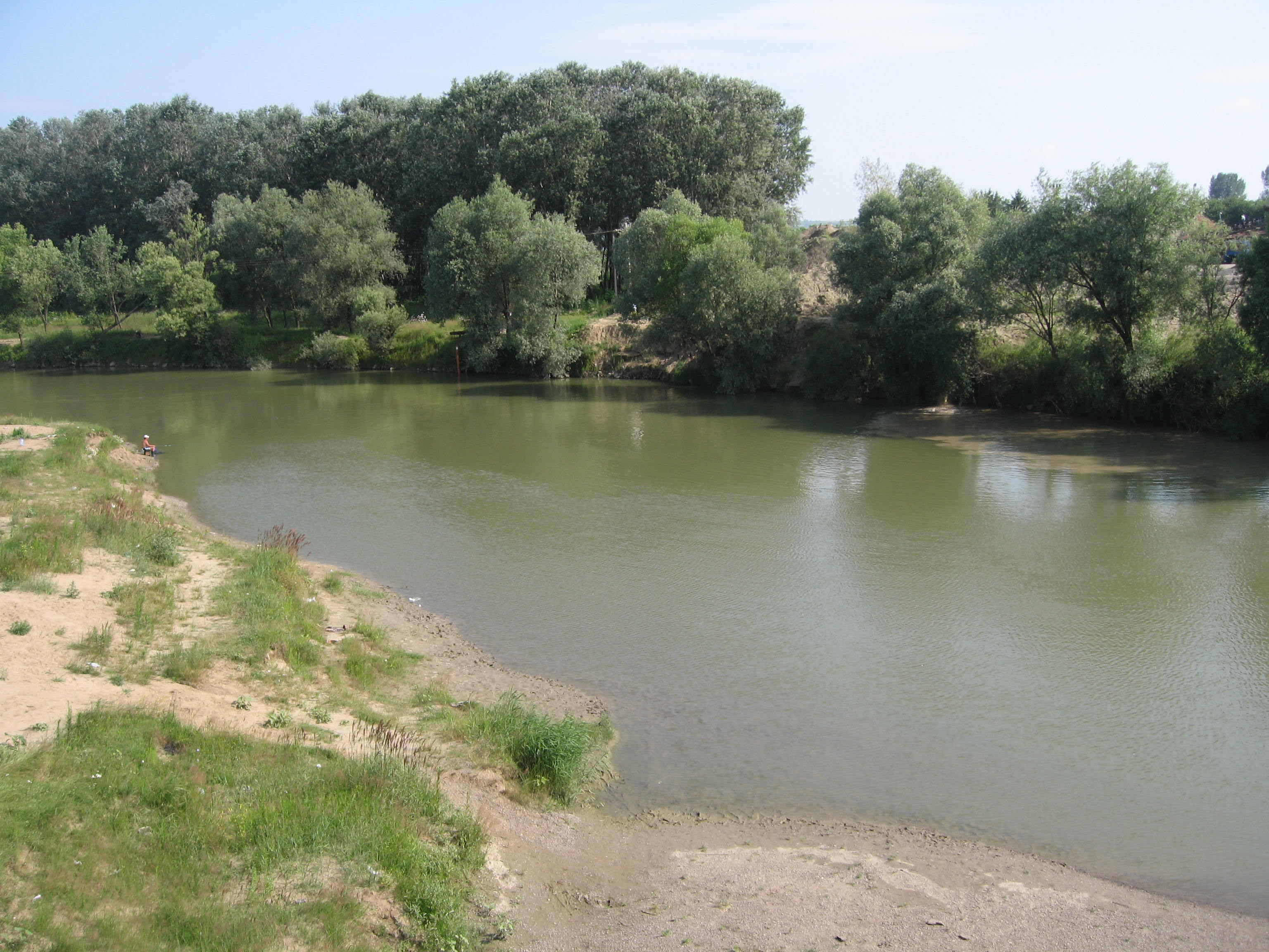 Râul Siret